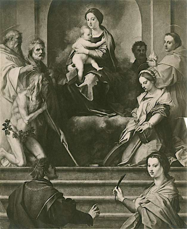 'Madonna and Child Enthroned with Saints', by Andrea del Sarto (1528), a painting possibly destroyed in the Friedrichshain flak tower fire in Berlin, at the end of the Second World War (May 1945). The painting belonged to the collections of the Kaiser-Friedrich-Museum, now the Bode-Museum of Berlin.